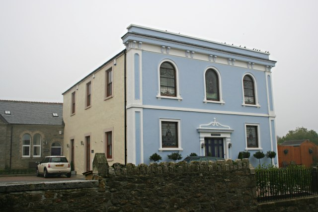 Former Methodist chapel, Praze-An-Beeble, Cornwall